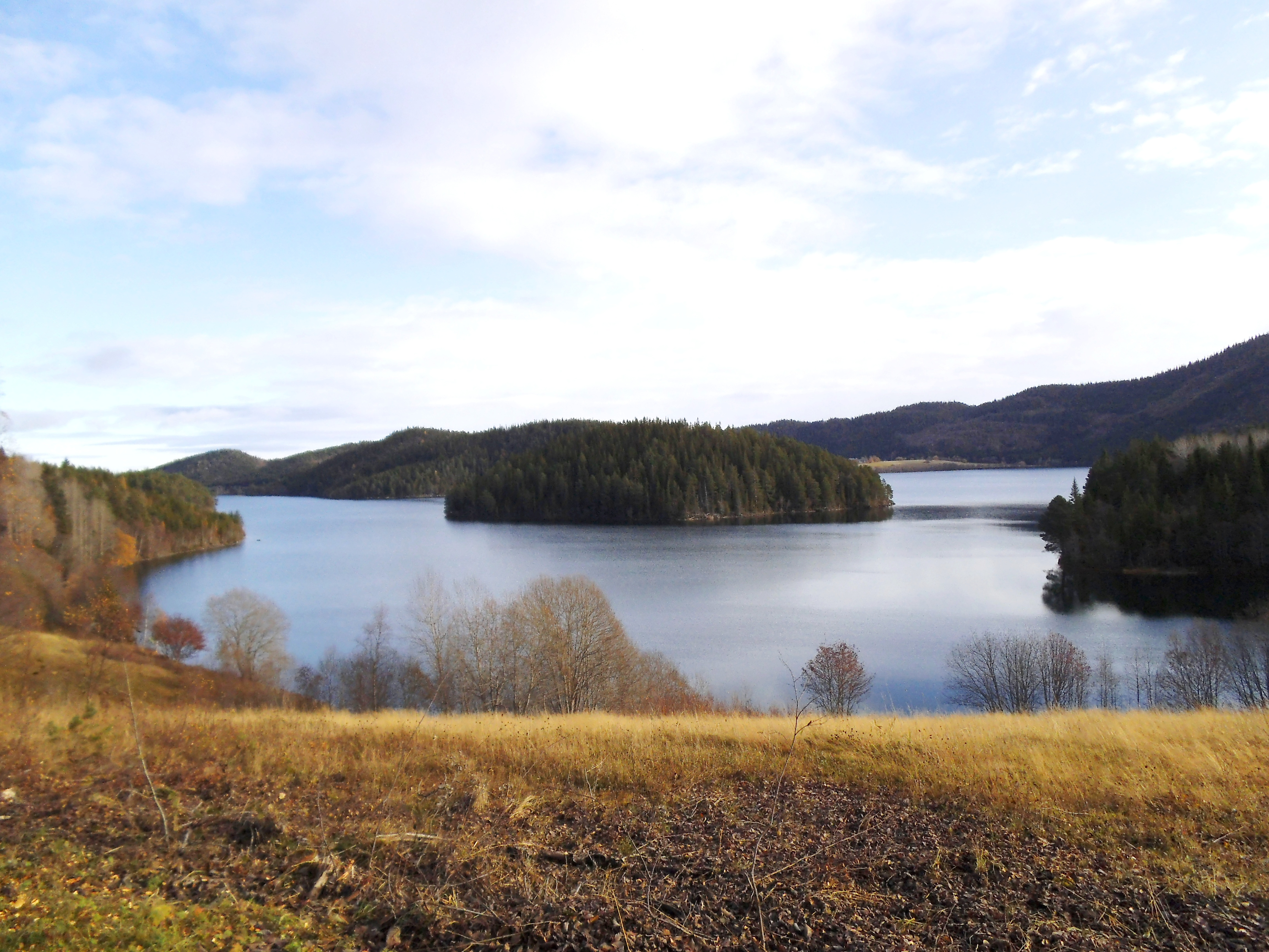 Grøtvatnet, a lake in Korsvegen, Melhus. Southern part of the lake